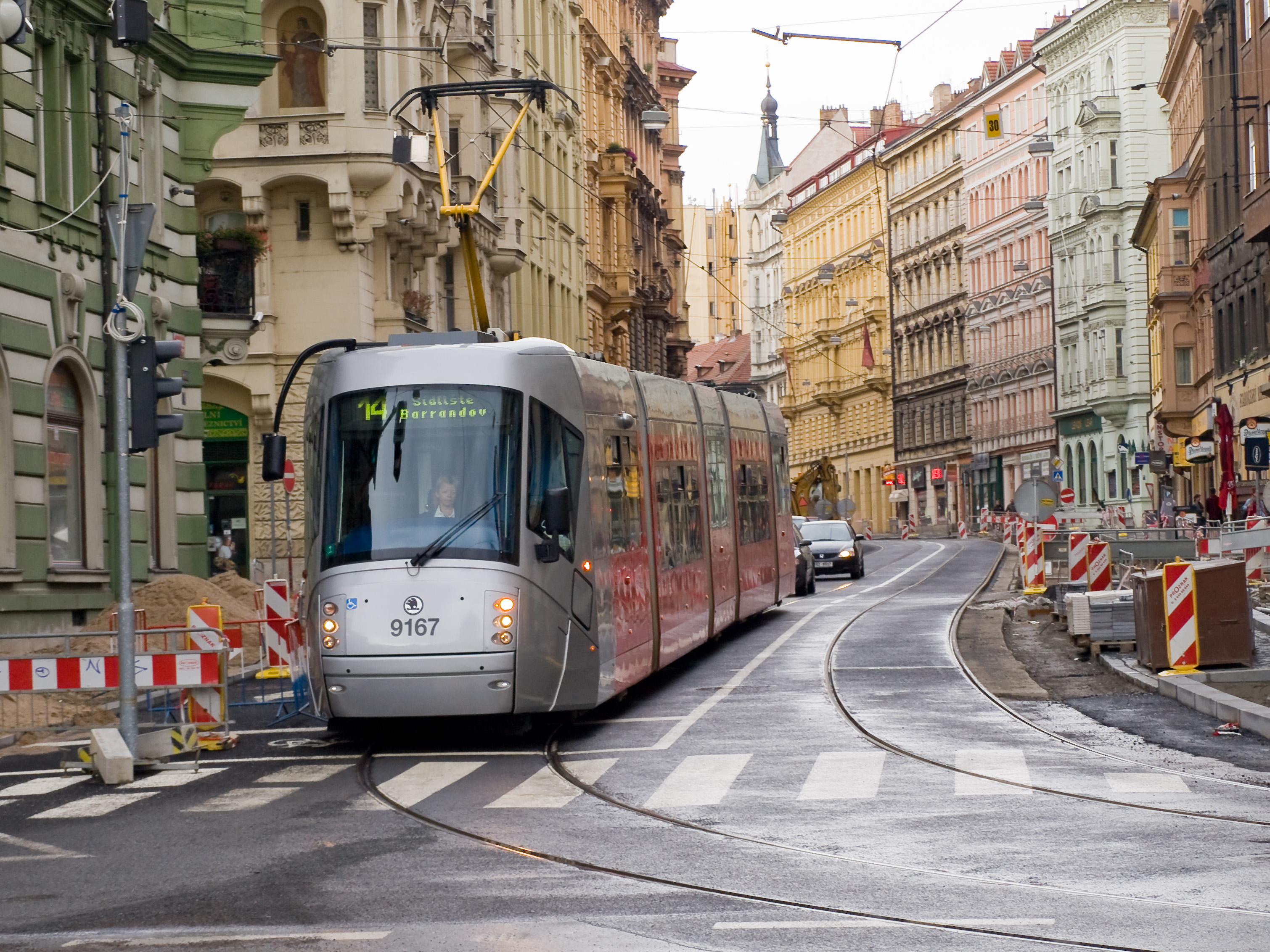 Škoda 14T in Myslíkova tram stop